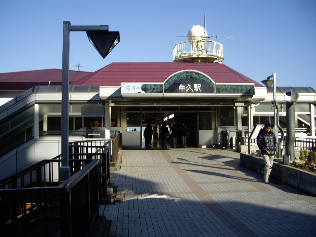 Pedway in front of Ushiku Station